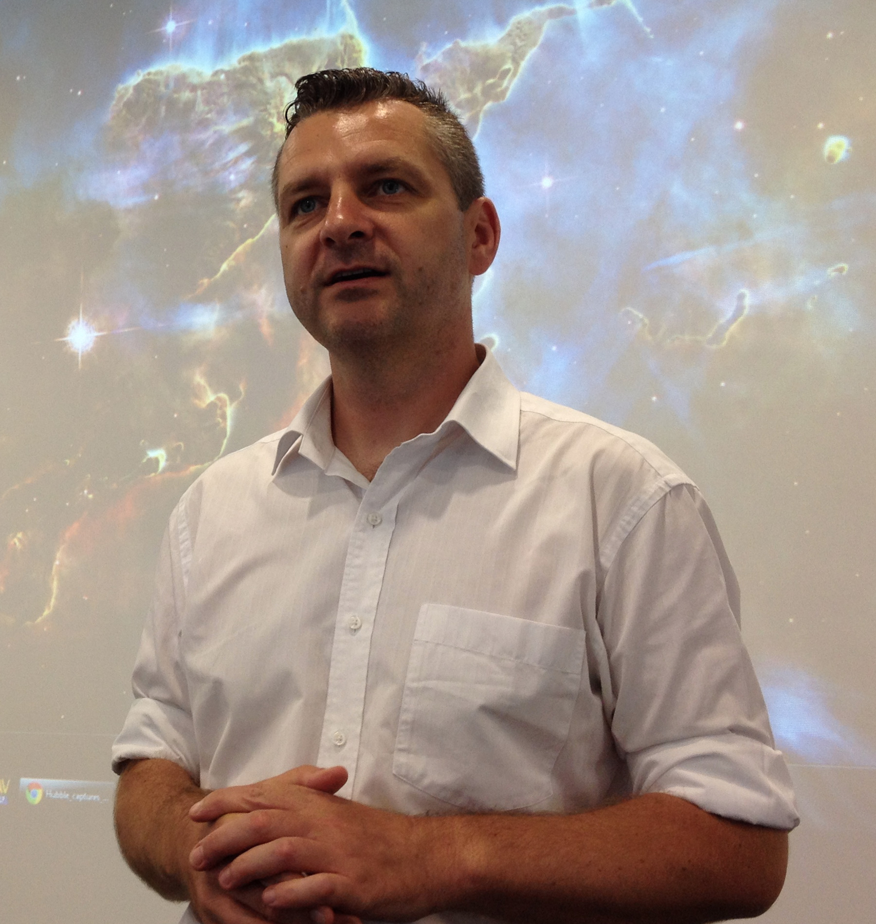 Prof Geraint F Lewis at the Sydney Institute for Astronomy